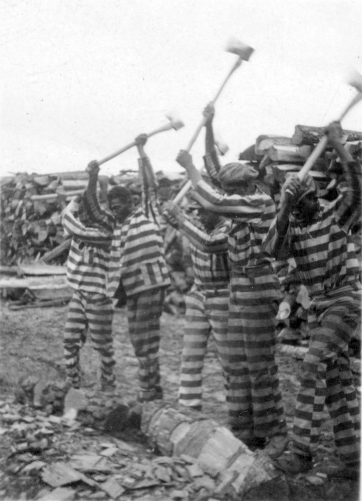 African American convicts working with axes, Reed Camp, South Carolina